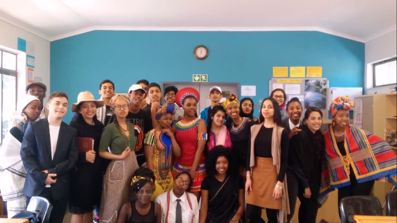 Cultural Day at the school celebrating the different cultures of students